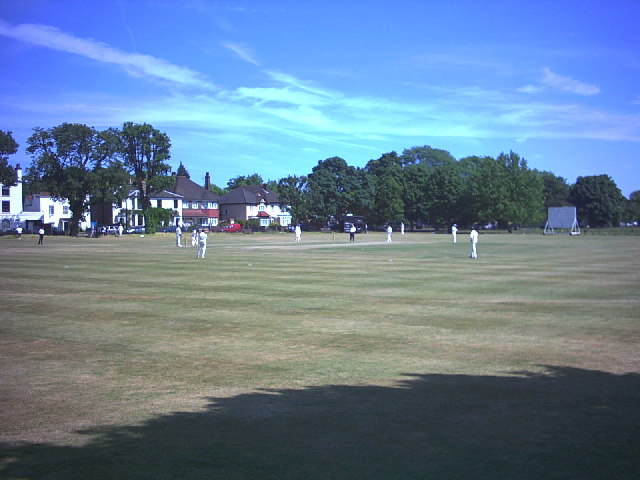 Cricket on The Cricket Green, Mitcham. Junction of A217 and A239.